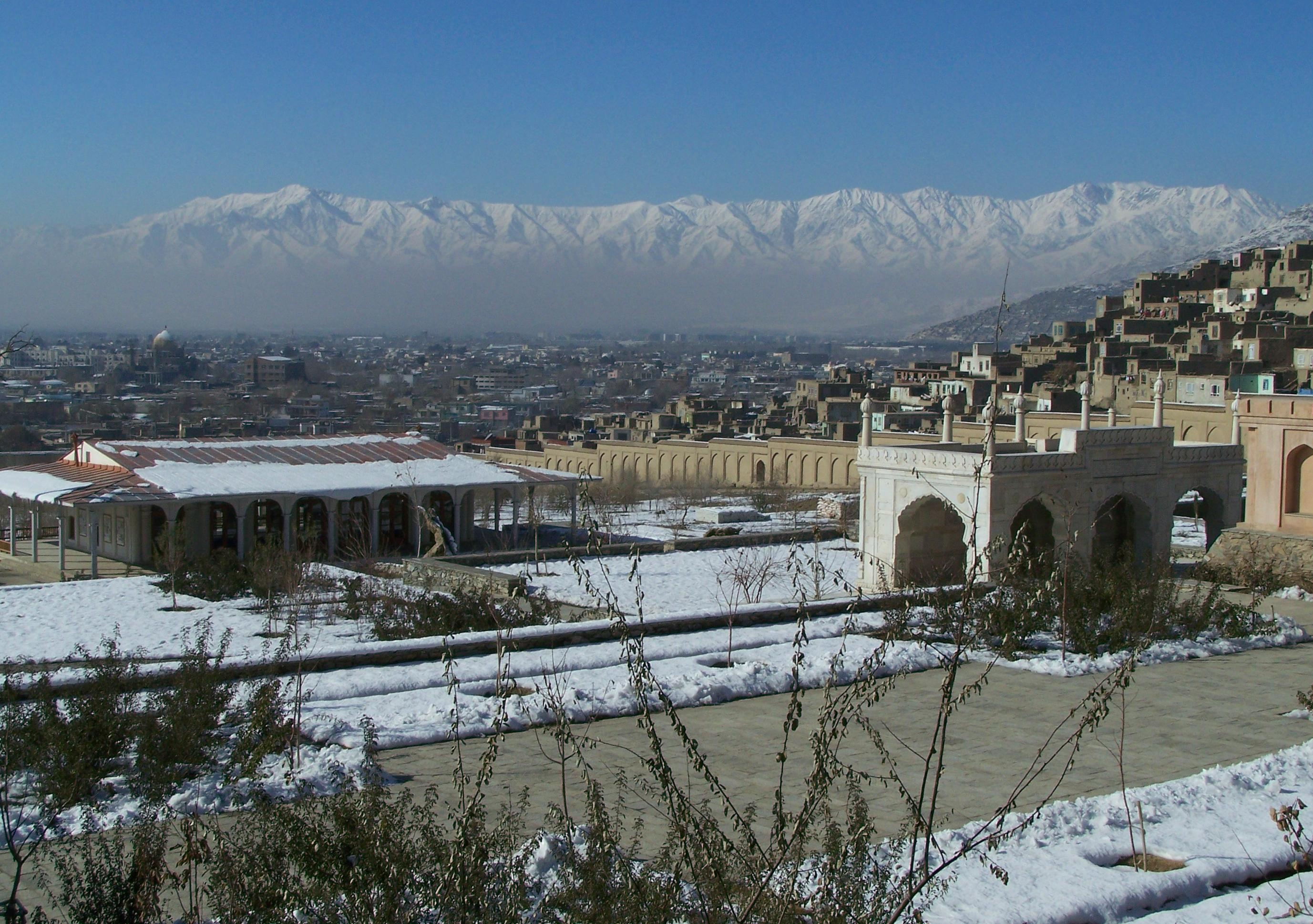 Bāgh-e Bābur in Kabul, Afghanistan